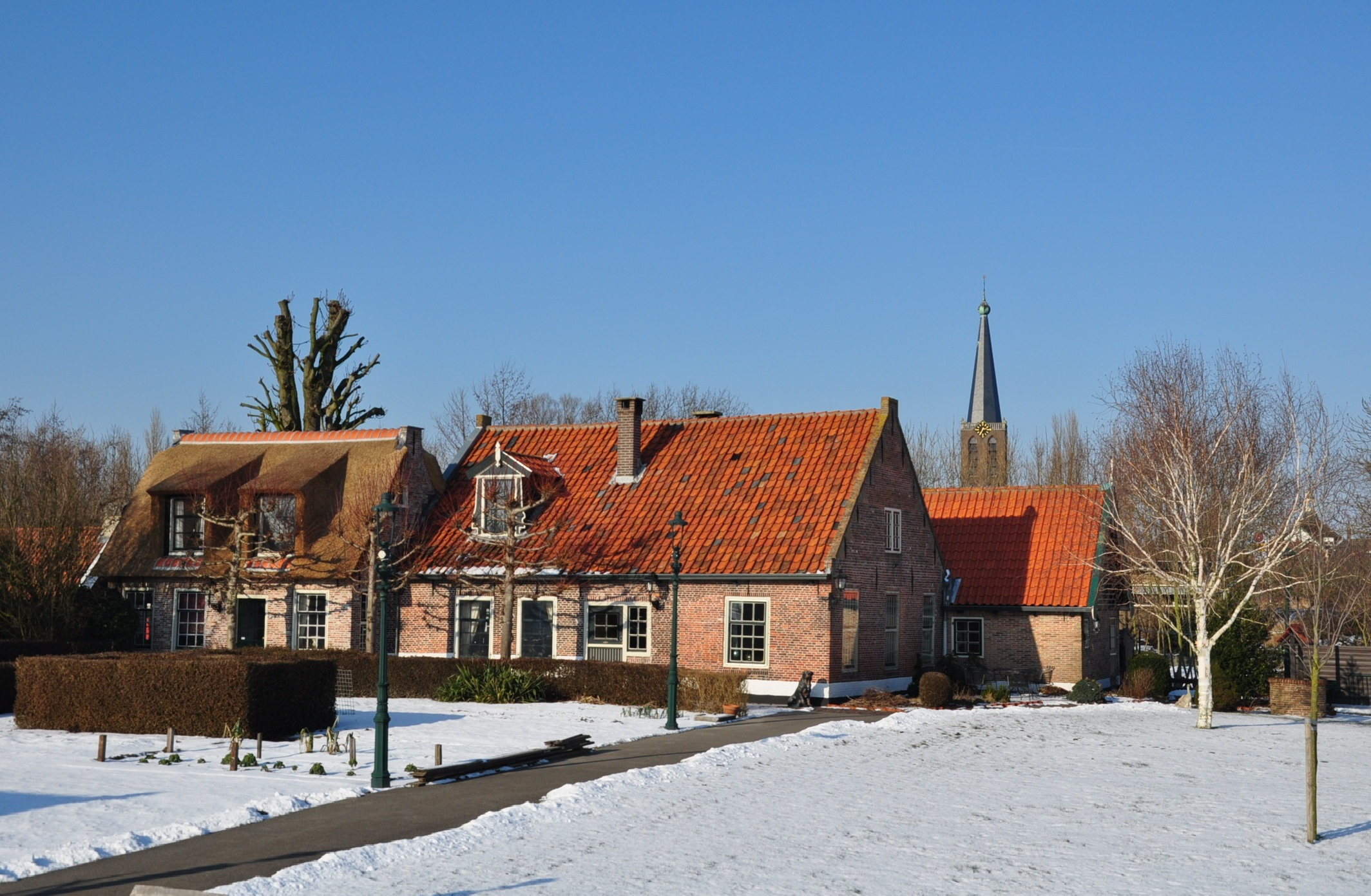 Farmhouse in Zoeterwoude - Zuidbuurt (Province South Holland, Netherlands).